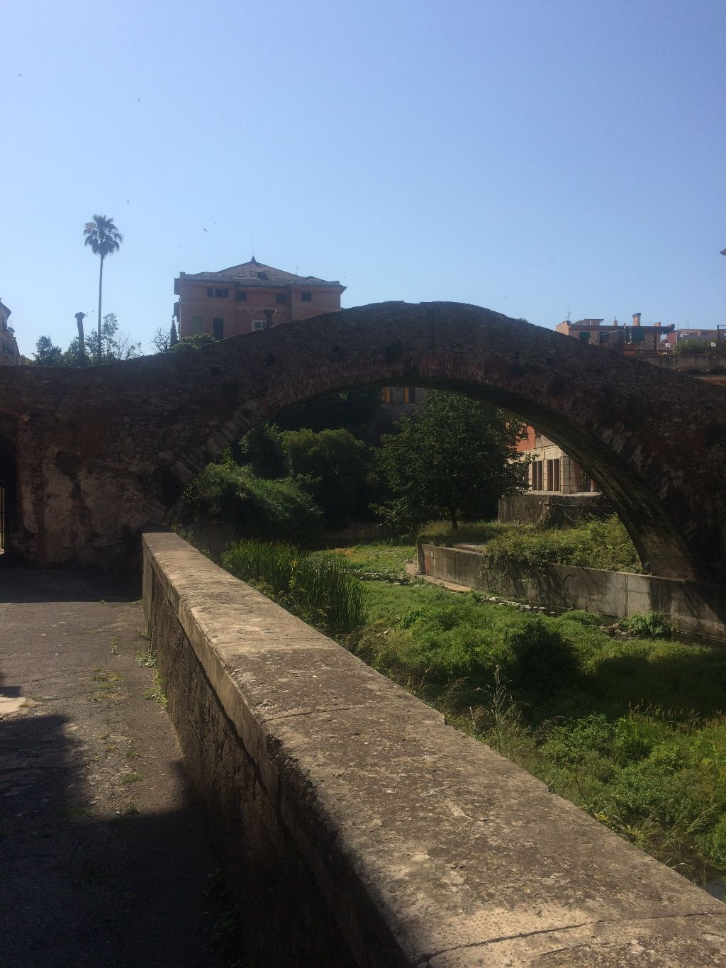 Old bridge as seen on the road to it from the bus stop.